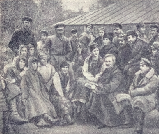 Dykanka Albert Rhys Williams among the inhabitants of Dykanka, 1924.